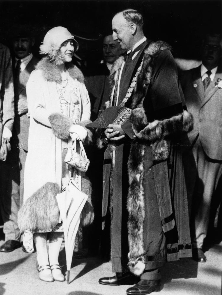 Duchess of York and Mayor of Toowoomba, 1927. The Duchess of York and James Douglas Annand, Mayor of Toowoomba. The Duchess of York was Lady Elizabeth Bowes-Lyon, later Duchess of York, later Queen Elizabeth, then Queen Mother.